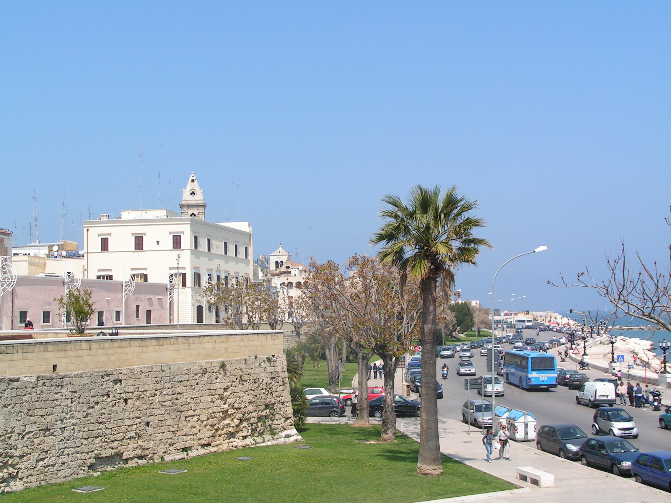 View of Bari, Italy